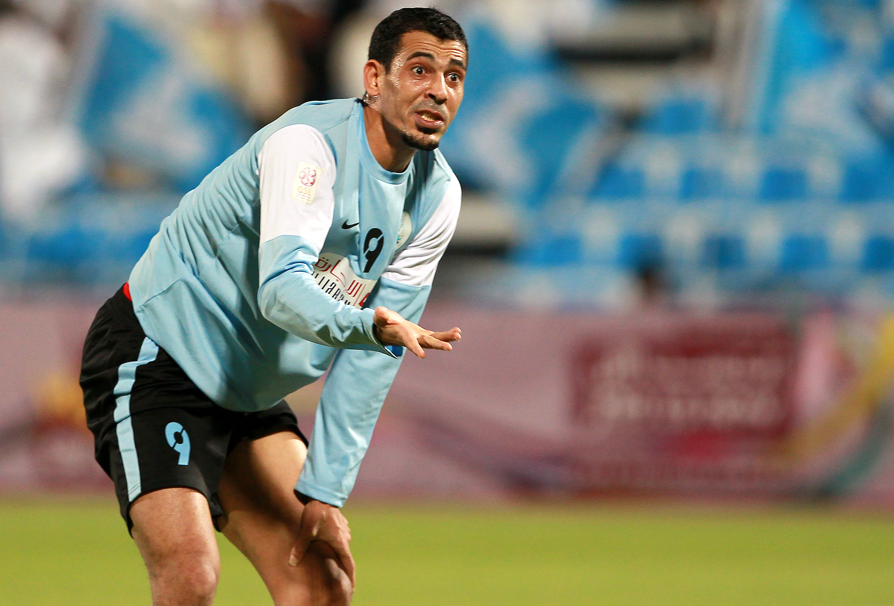 Al Wakra's Iraqi player Younis Mahmoud argues with the referee during a Qatar Stars League match. Pic by AK Bijuraj